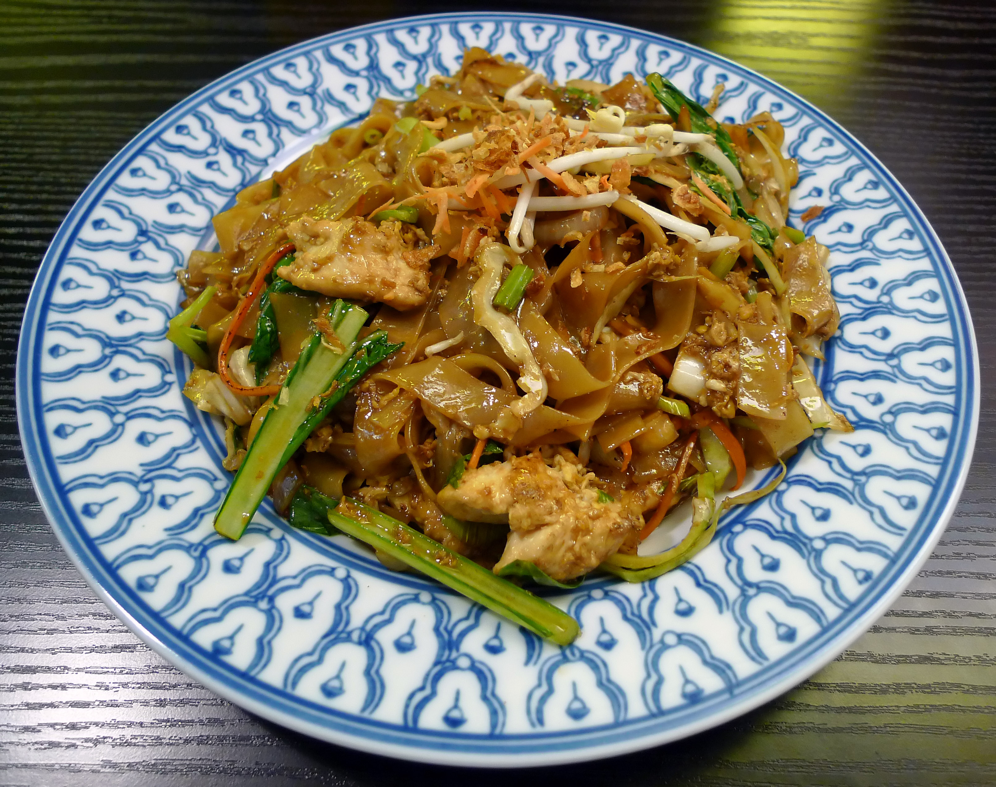 Kwetiau Kuah Ayam; shahe fen rice noodles and chicken. Served at Tang Soriya Asian Food, Bern, Switzerland.